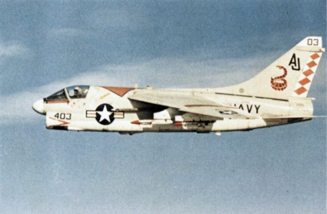 A U.S. Navy LTV A-7C Corsair II from Attack Squadron VA-86 Sidewinders in flight, in 1974. VA-86 was assigned to Carrier Air Wing 8 (CVW-8) aboard the aircraft carrier USS America (CVA-66) for a deployment to the Mediterranean Sea from 3 January to 3 August 1974.